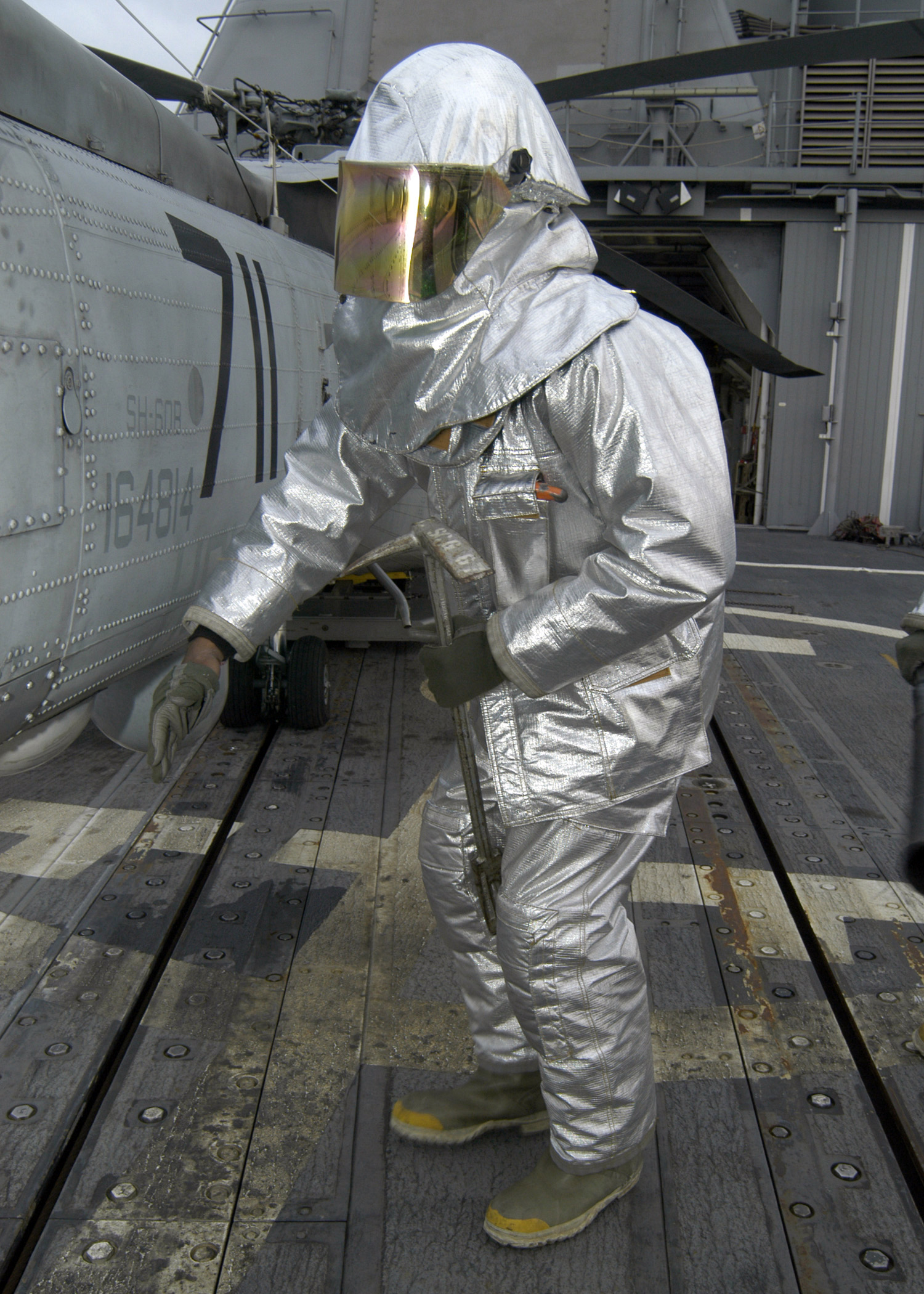 SAGAMI-WAN BAY, Japan (Jan. 18, 2008) A Sailor wearing a fire-retardant suit checks for hot spots during a crash and smash drill aboard the guided-missile cruiser USS Shiloh (CG 67). Crash and smash drills train fire fighting and rescue teams for shipboard aircraft files. Shiloh is on a scheduled deployment as part of Destroyer Squadron 15. U.S. Navy photo by Mass Communication Specialist 2nd Class Chantel M. Clayton (Released)